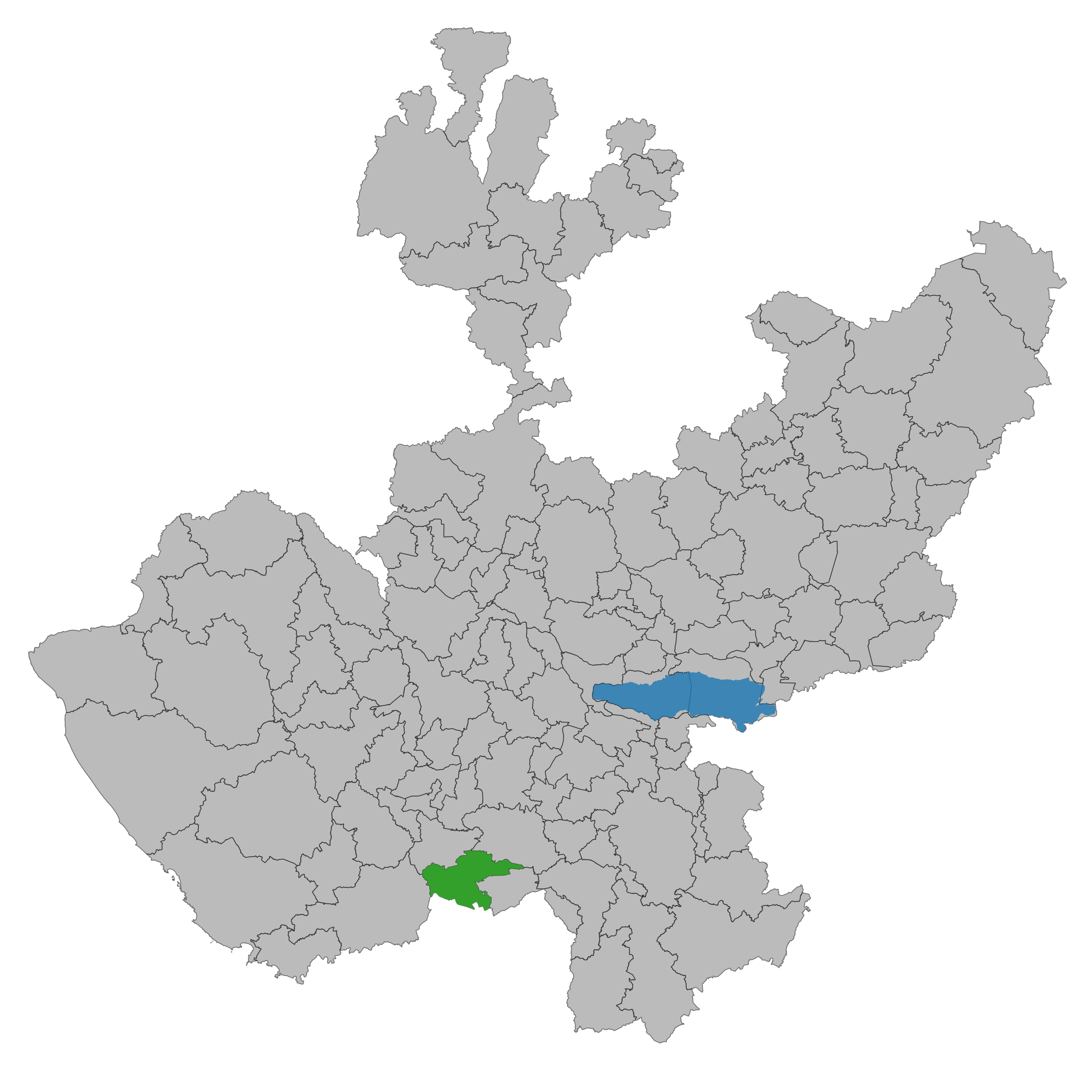 Municipality of Jalisco. Prepared with the software QGIS version 2.8.2 Wien & with information of SCINCE 2010 version 05/2013